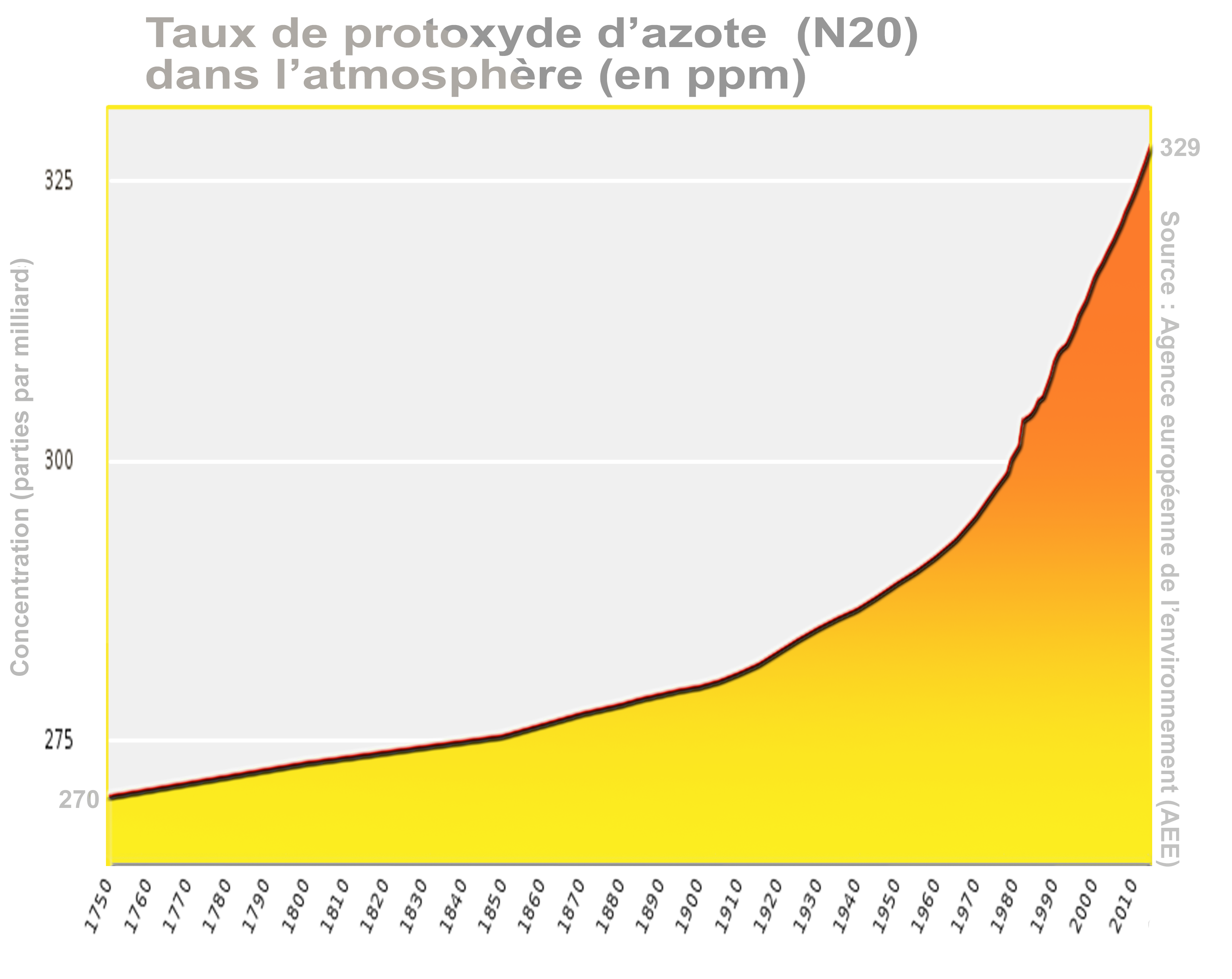 Evolution over time (260 years) of the contents of the Earth's atmosphere of N2O, a greenhouse gase ; Nitrous oxide occurs in small amounts in the atmosphere, but recently has been found to be a major scavenger of stratospheric ozone, with an impact comparable to that of CFCs. It is estimated that 30% of the N2O in the atmosphere is the result of human activity, chiefly agriculture. English name of the unit PPB = parts per billons (PPB)